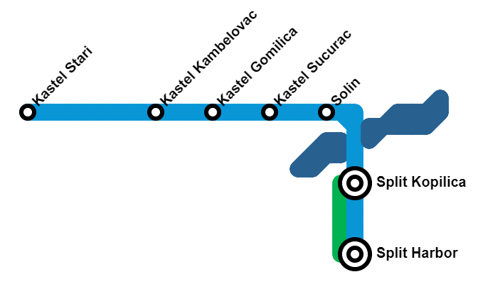 suburban rail network map as of June 2019, Split, Croatia; made with MetroMapMaker, created by Shannon Turner